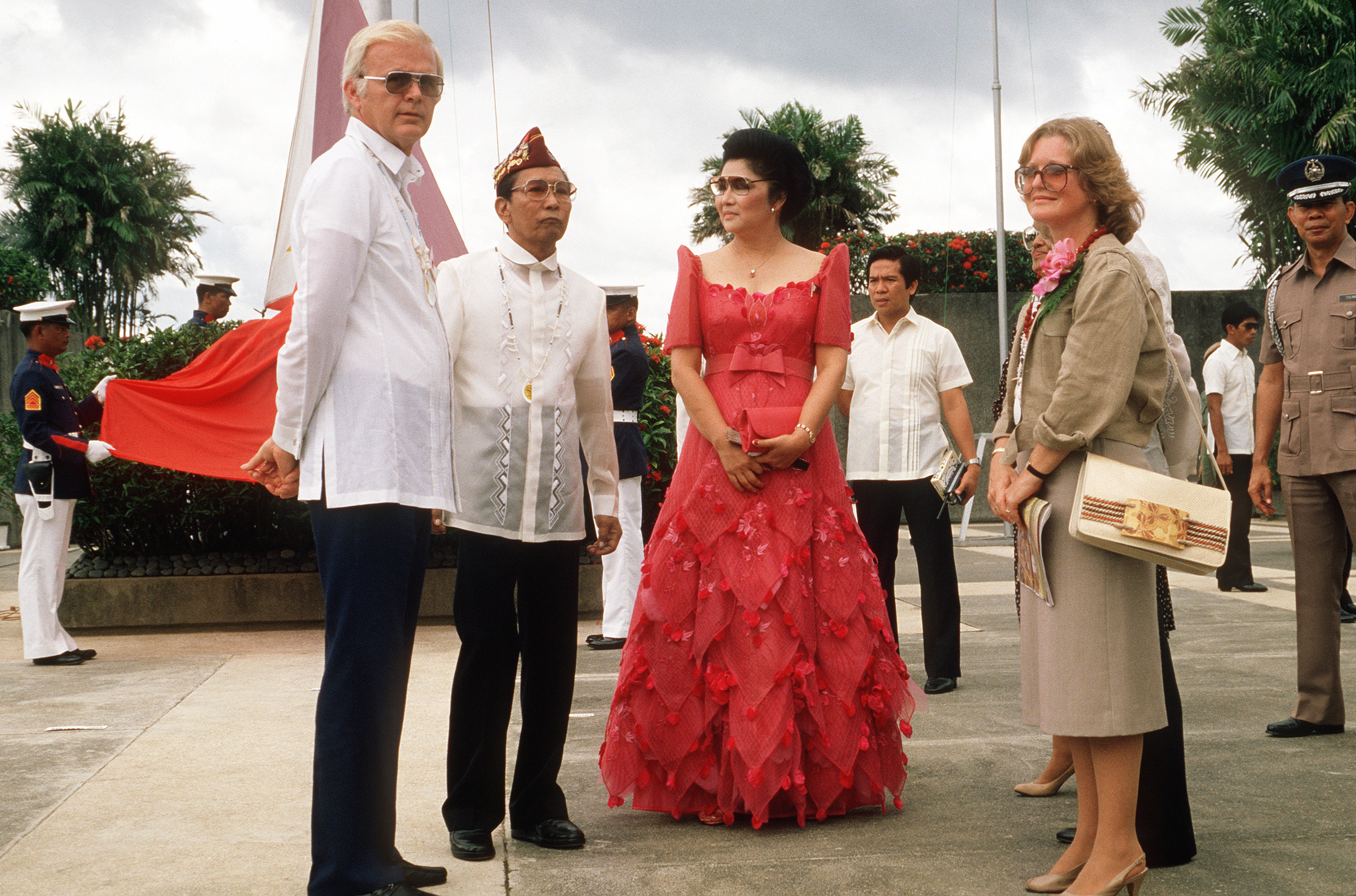 Stephen W. Bosworth, left, US Ambassador to the Philippines, talks with President Ferdinand Marcos and his wife Imelda during the reenactment of General Douglas MacArthur's landing at Red Beach on October 20, 1944. Ambassador Bosworth's wife is on the right. VIRIN: DF-ST-85-06923